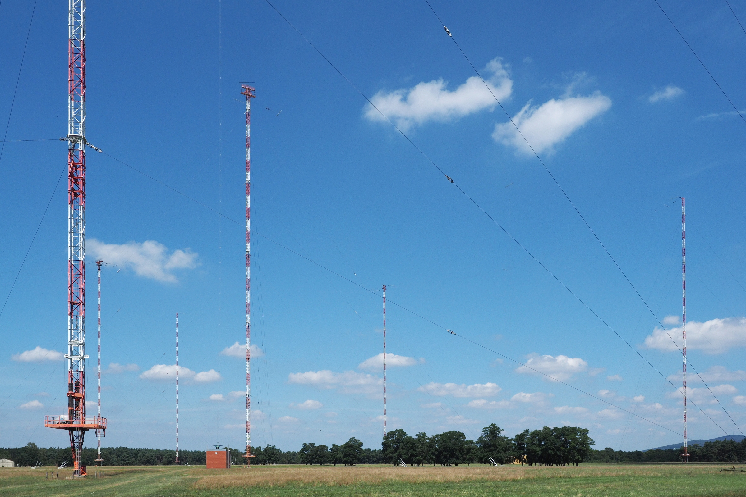 Masts of Mainflingen broadcast transmitter station